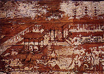 Wall paintings from Fukiji, Bungotakada, Oita, Japan